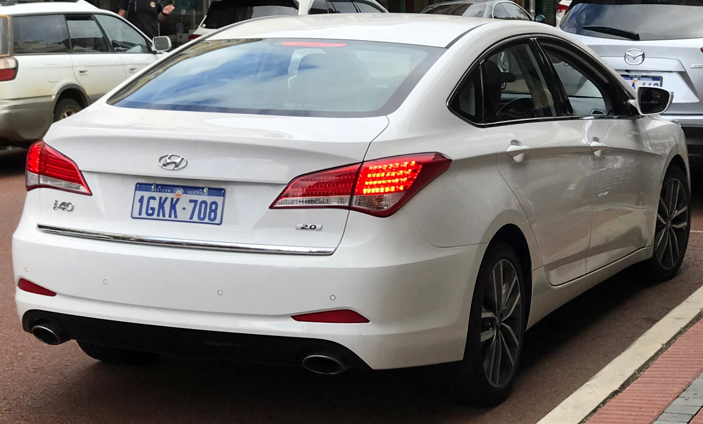 2017 Hyundai i40 (VF4 Series II) Premium sedan. Photographed in Fremantle, Western Australia, Australia.